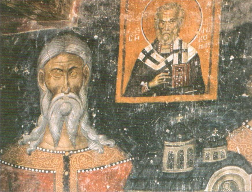 Portrait of the founder in the church of Psacha, Macedonia